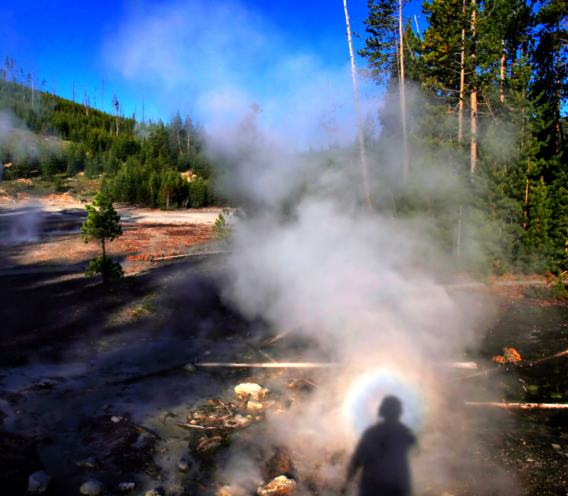 Solar glory at the steam from hot springs at Yellowstone National Park.A glory is an optical phenomenon produced by light backscattered (a combination of diffraction, reflection and refraction) towards its source by a cloud of uniformly-sized water droplets.